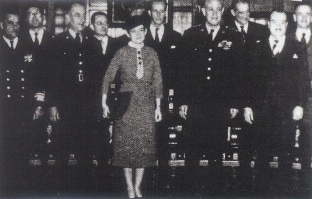 General Gustavo Rojas Pinilla, President of Colombia, surrounded by his cabinet.